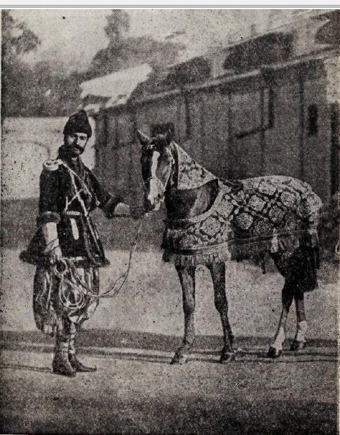 Karabakh stallion